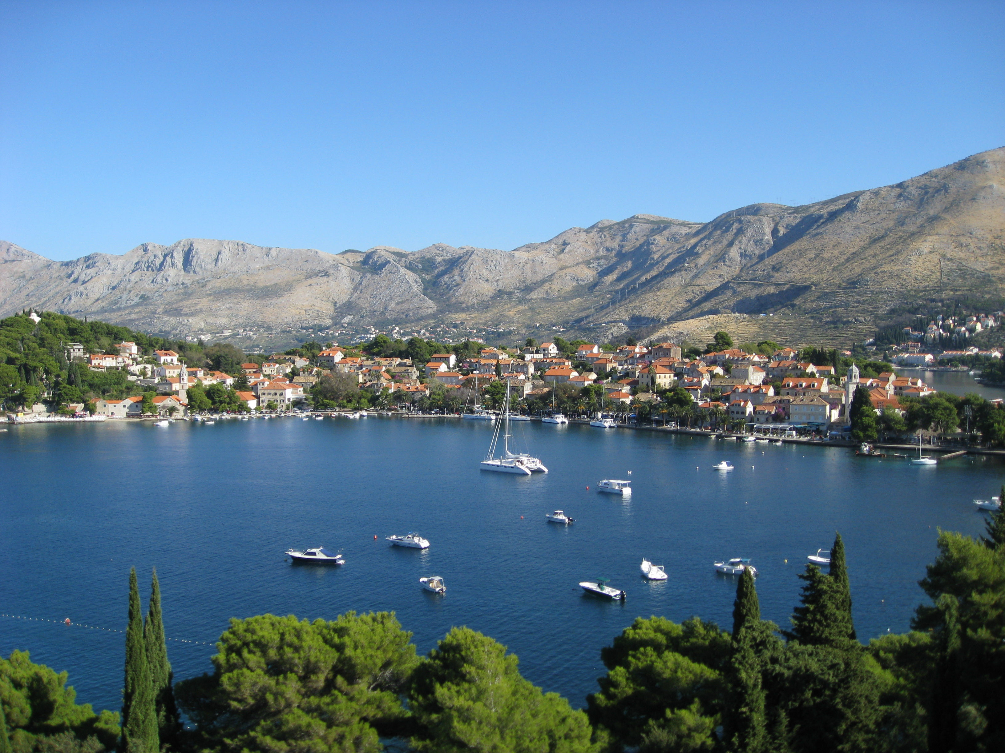 Cavtat, Croatia and Cavtat Harbor viewed from Hotel Croatia.